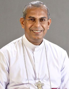 Mar Andrews Thazhath, the third and the present Metropolitan Archbishop of Syro-Malabar Catholic Archdiocese of Thrissur.